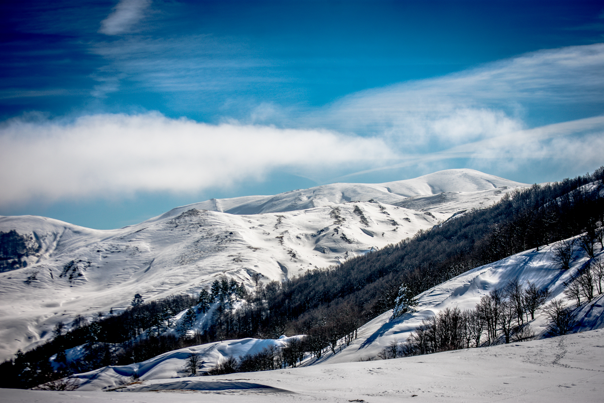 This is a photography of Natura 2000 protected area with ID GR2130006